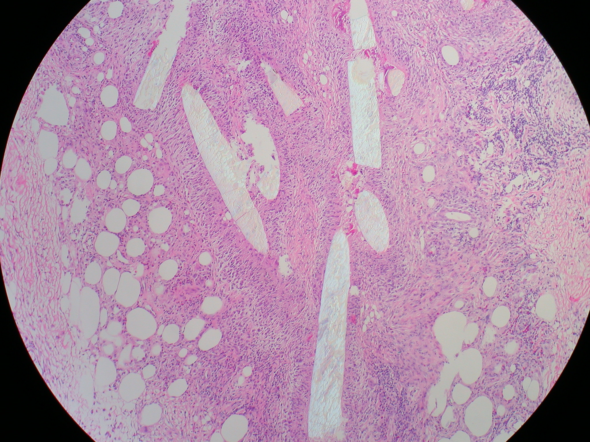 Radiographic Marker in Lumpectomy Specimen Pathological and histological images courtesy of Ed Uthman at flickr.